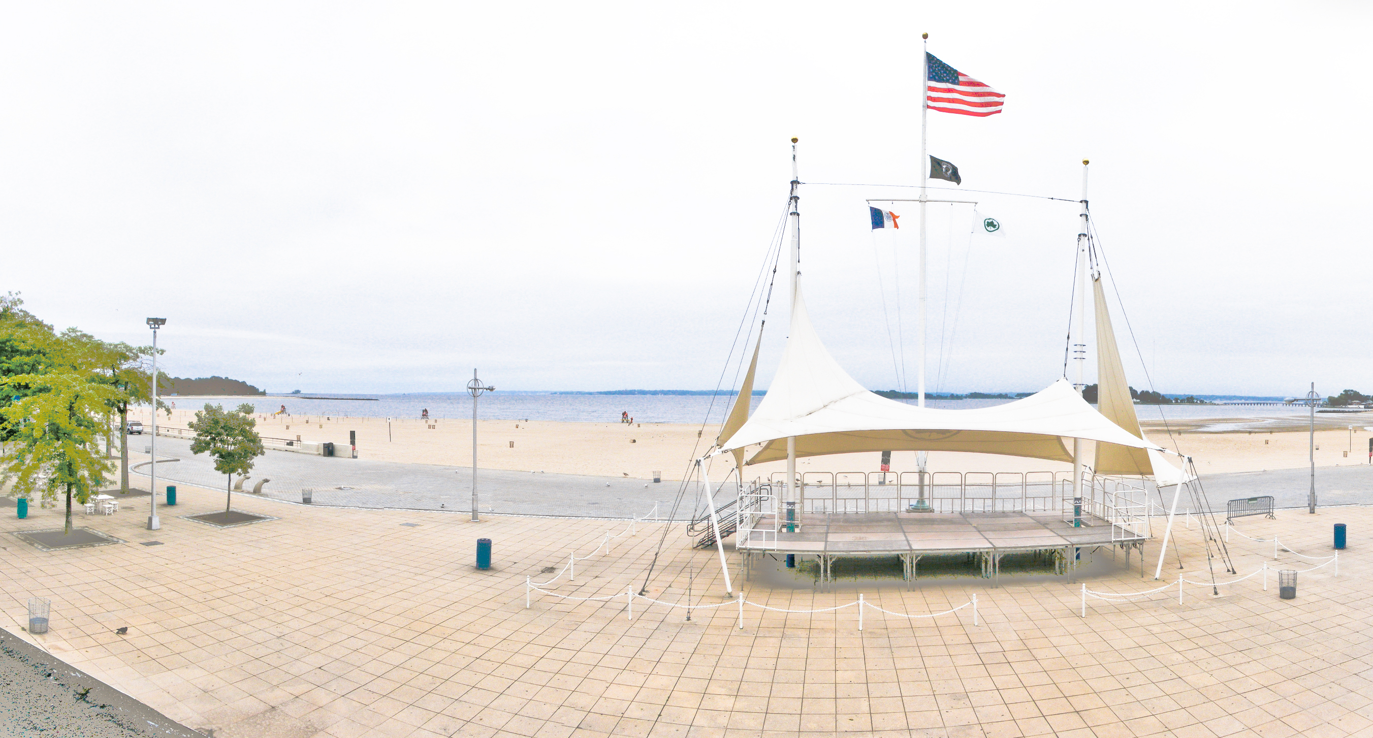 Shot of an empty orchard beach in Pelham Bay Park.